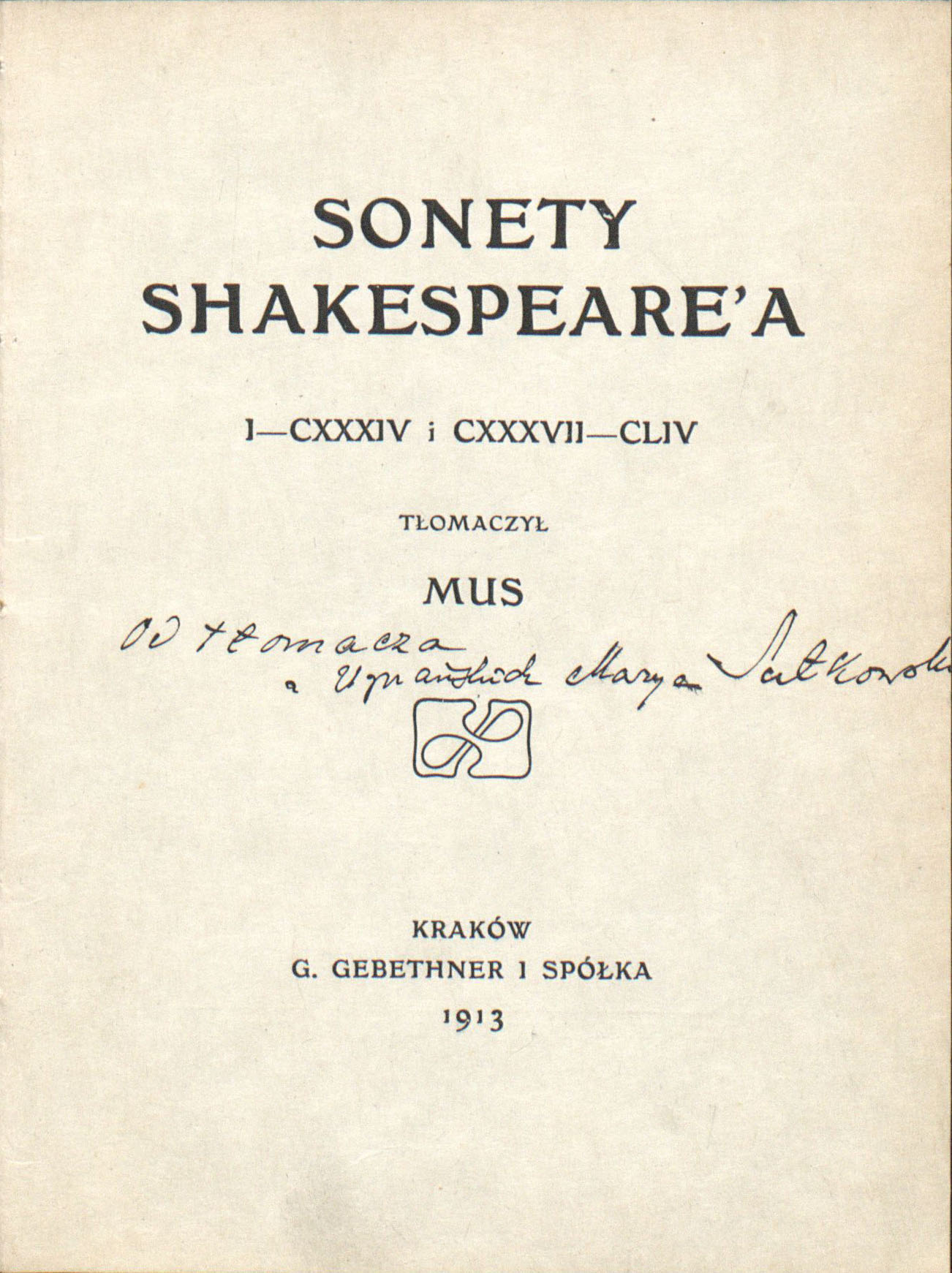 Sonety Shakespeare'a I-CXXXIV i CXXXVII-CLIV (Shakespeare Sonnets) translated by Maria Sułkowska (MUS) title page